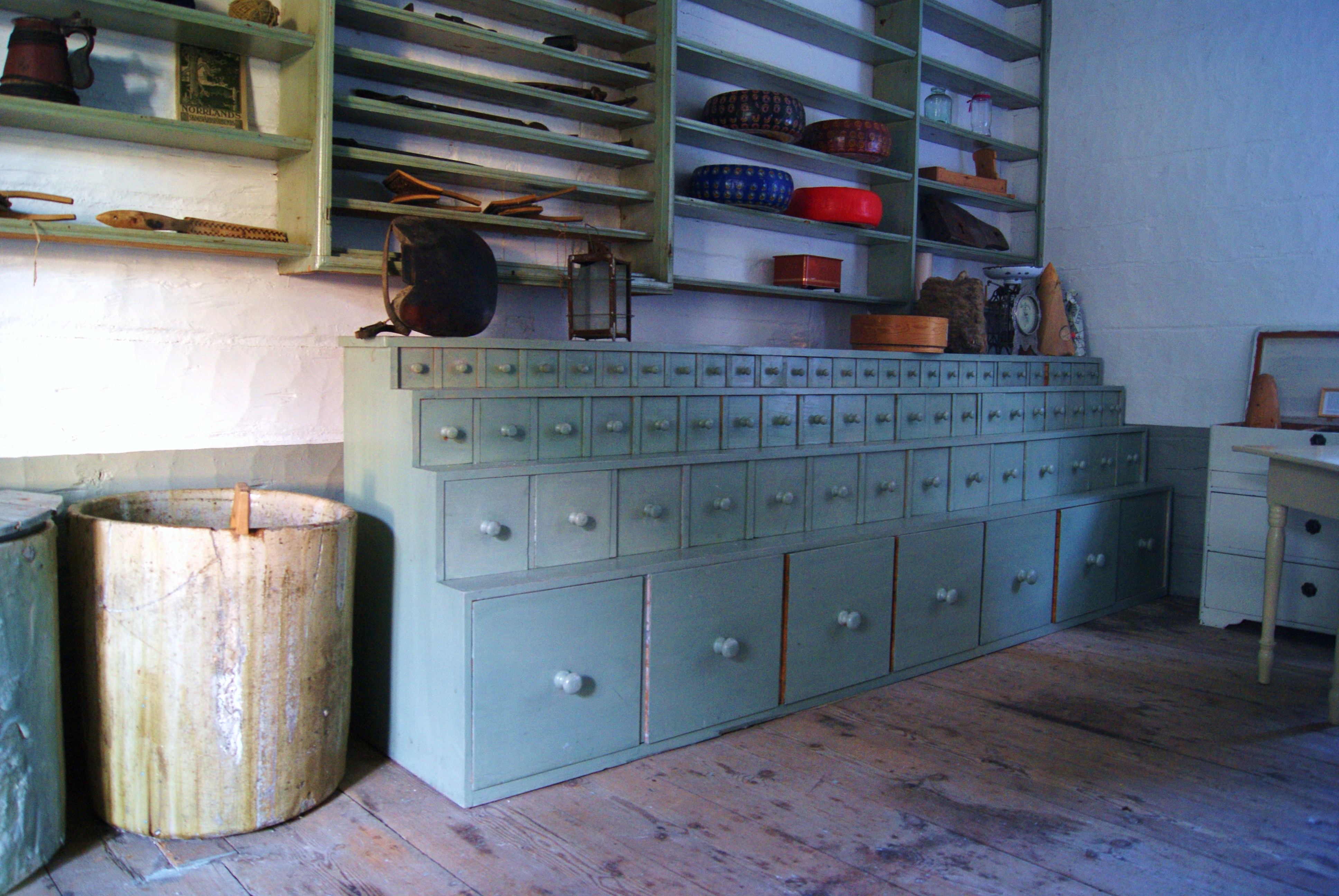 A store was built in Dalkarlså herrgård (Dalkarlså mansion) in 1850. The fitment is from that time (including the counter, the benches, the shutters, the shelves and the boxes). The storage boxes under the shelves are newer.